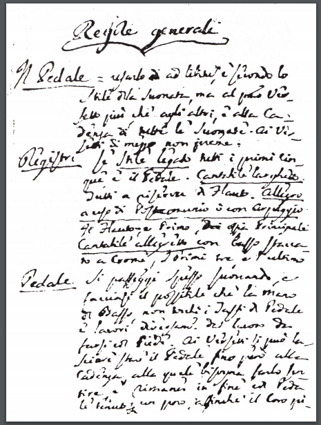 Autograph of «General Rules» of tuning the organ, written in 17th Century by tuscan musician and collector Pietro Sermolli as stored in Fondo Venturi, Biblioteca Comunale di Montecatini Terme, in the tuscan county of Pistoia, Italy